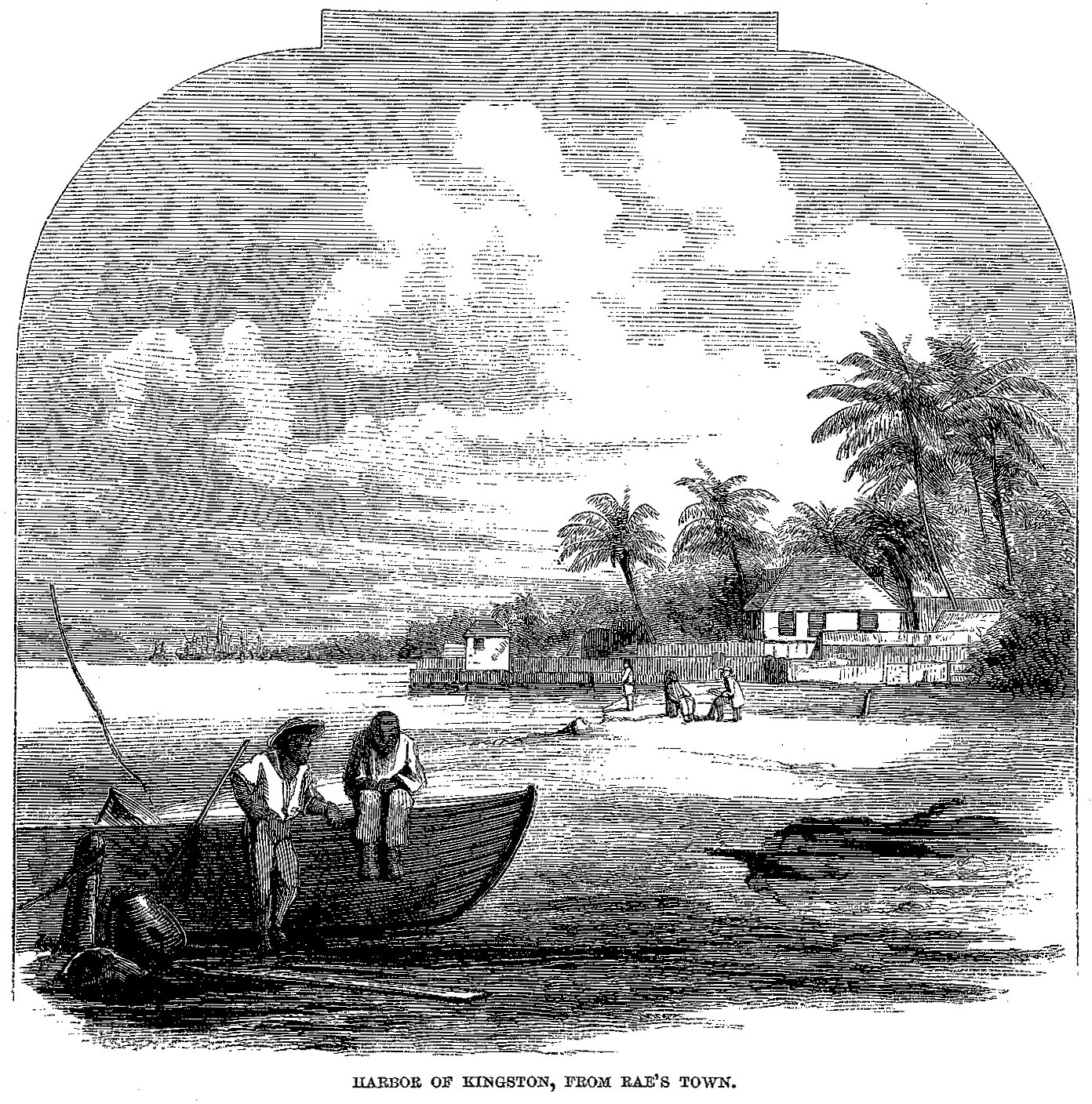 "Harbor of Kingston, from Rae's Town", illustration of article "Cast-away in Jamaica" by W.E. Sewell, in Harper's Monthly Magazine, January 1861.